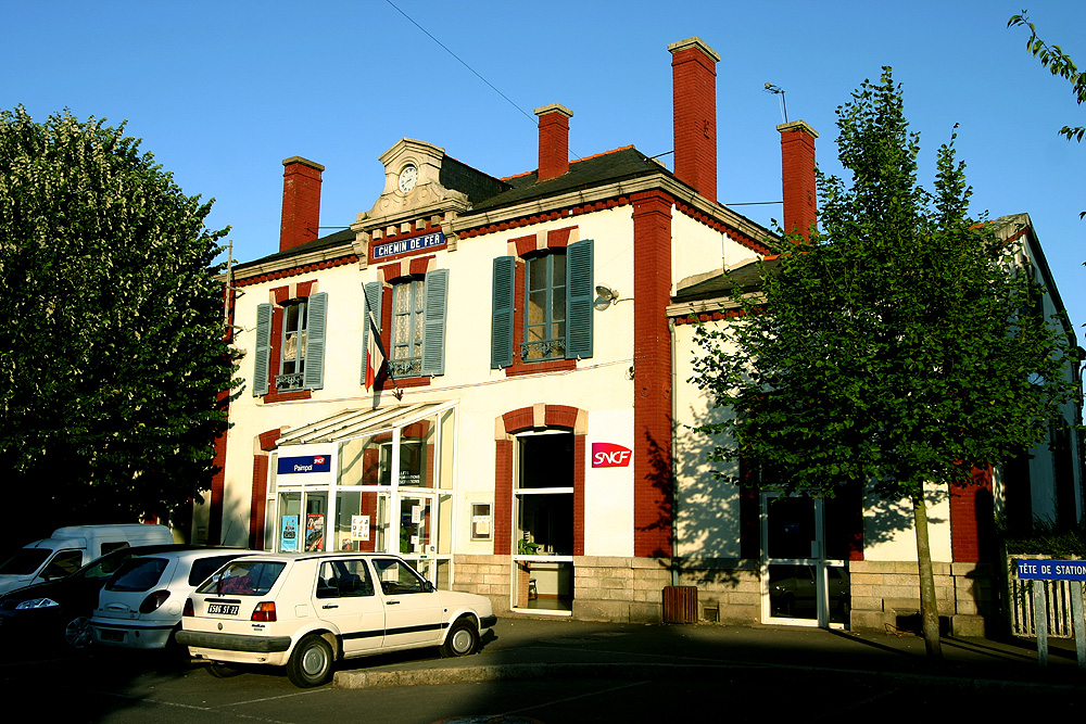 Station building of Paimpol, Bretagne